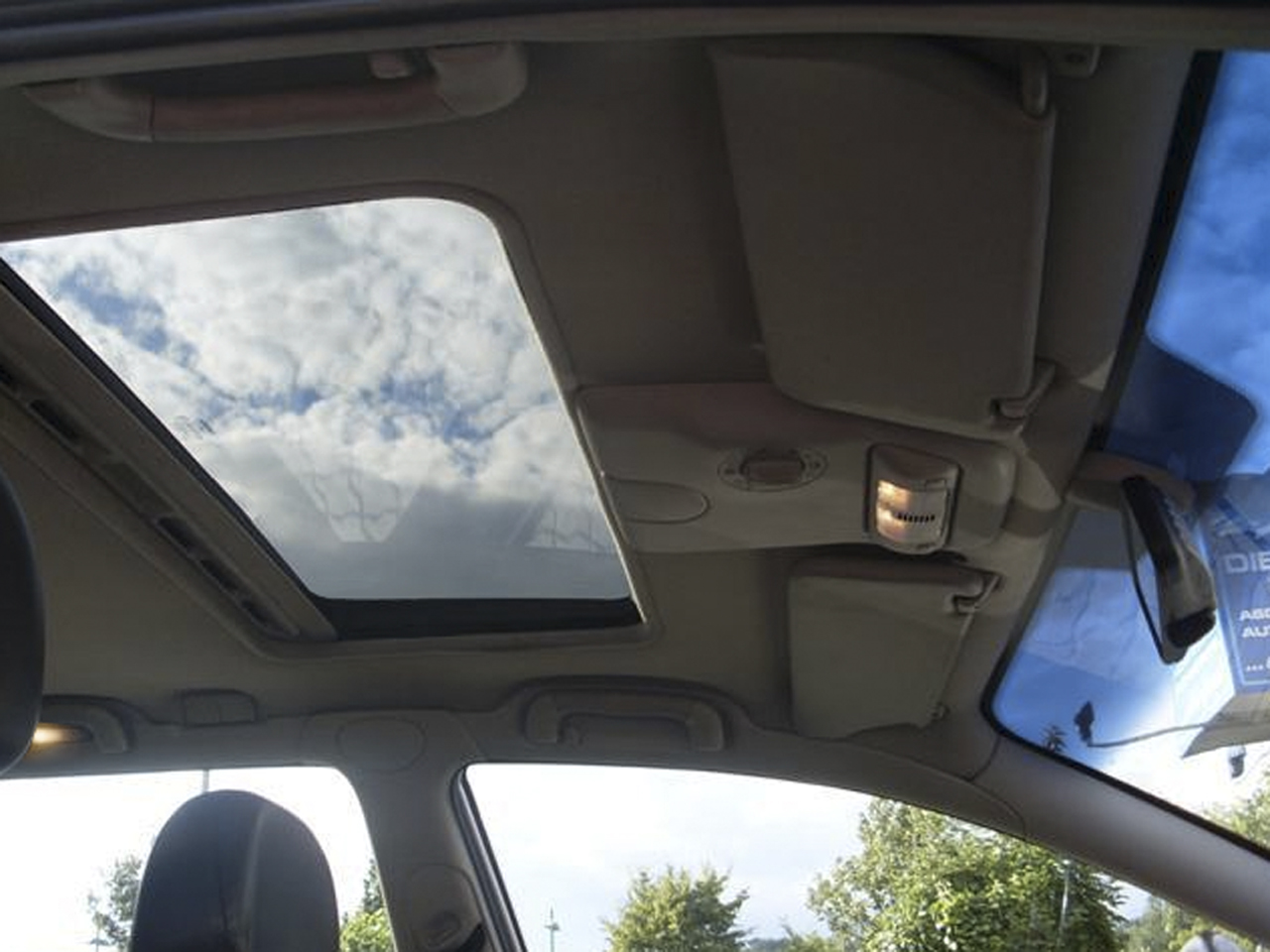 The electric sun roof was an option